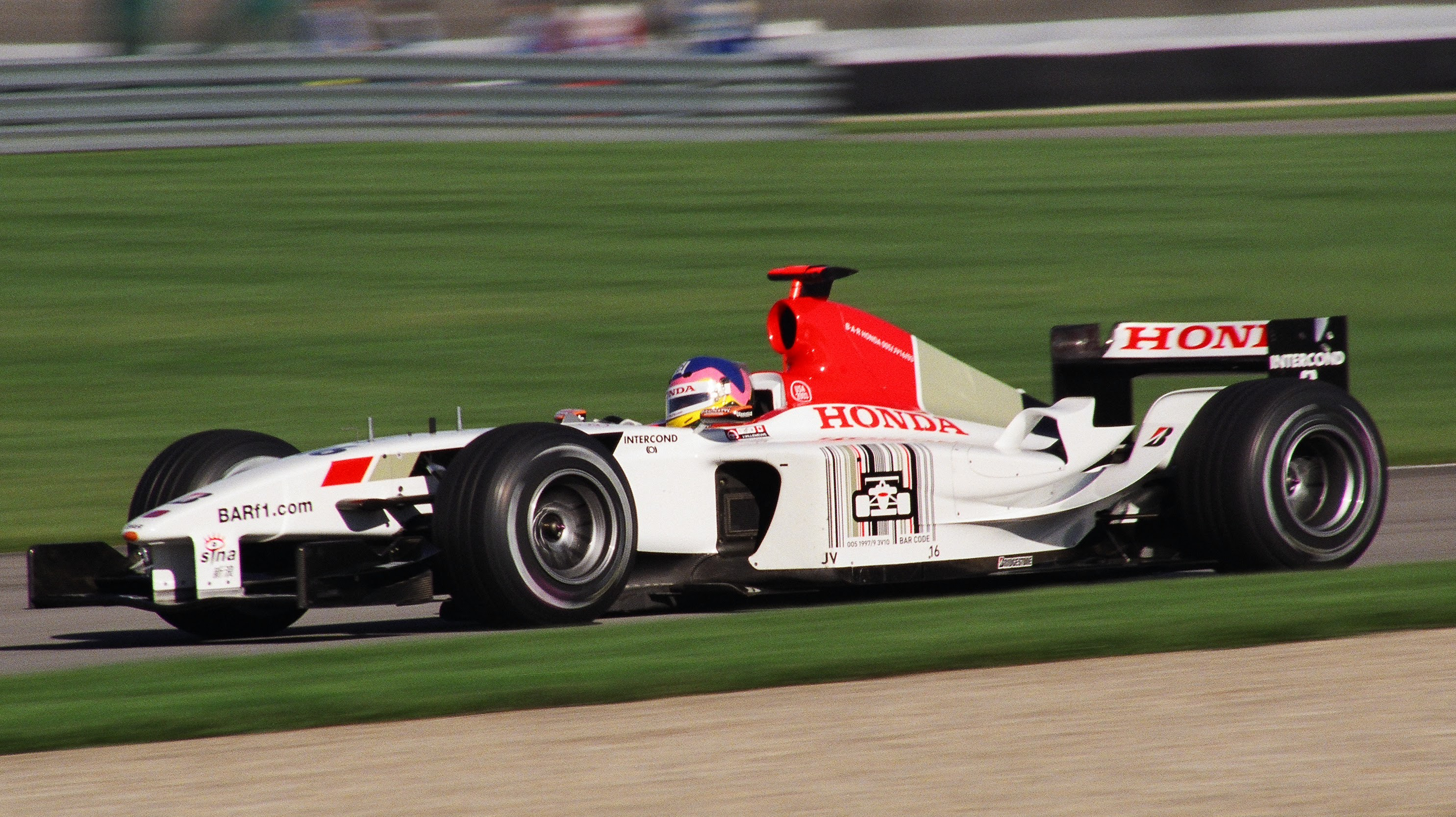 Jacques Villeneuve on BAR at the 2003 United States Grand Prix of Formula 1